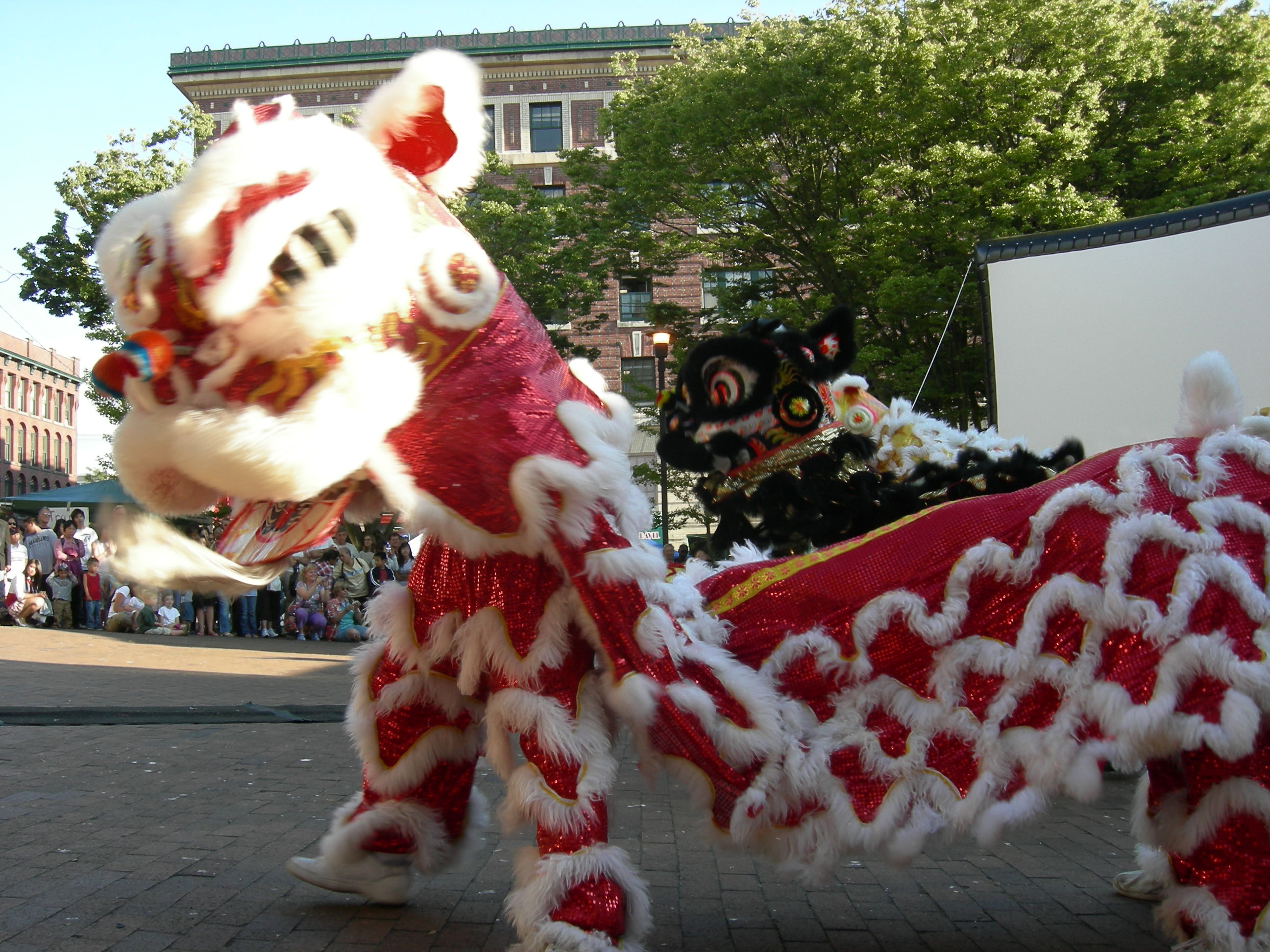 Lion dance at Seattle's Chinatown-International District Night Market, Hing Hay Park, International District, Seattle, Washington.